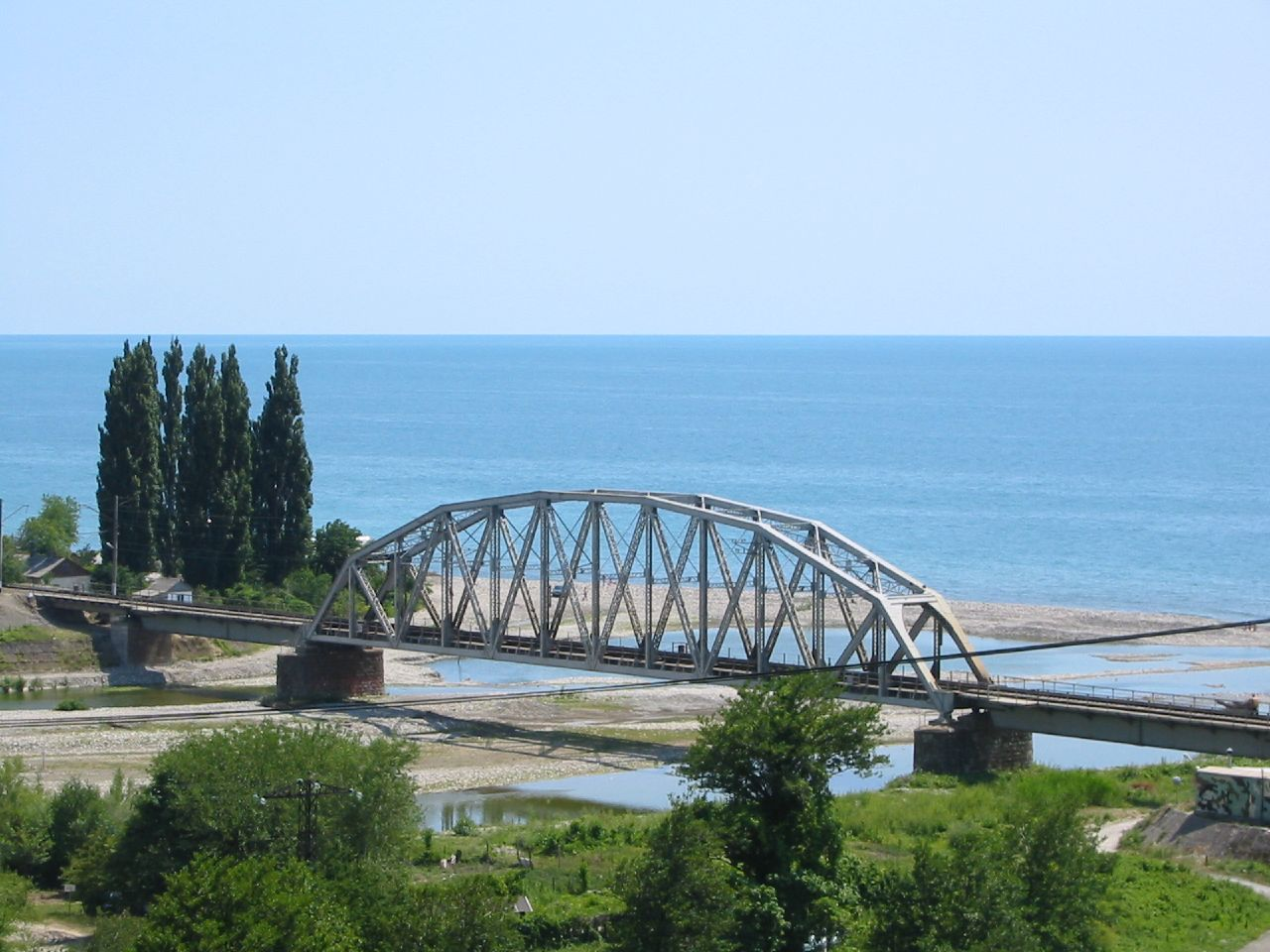 Bridge over Ashe river (2003-07-015)